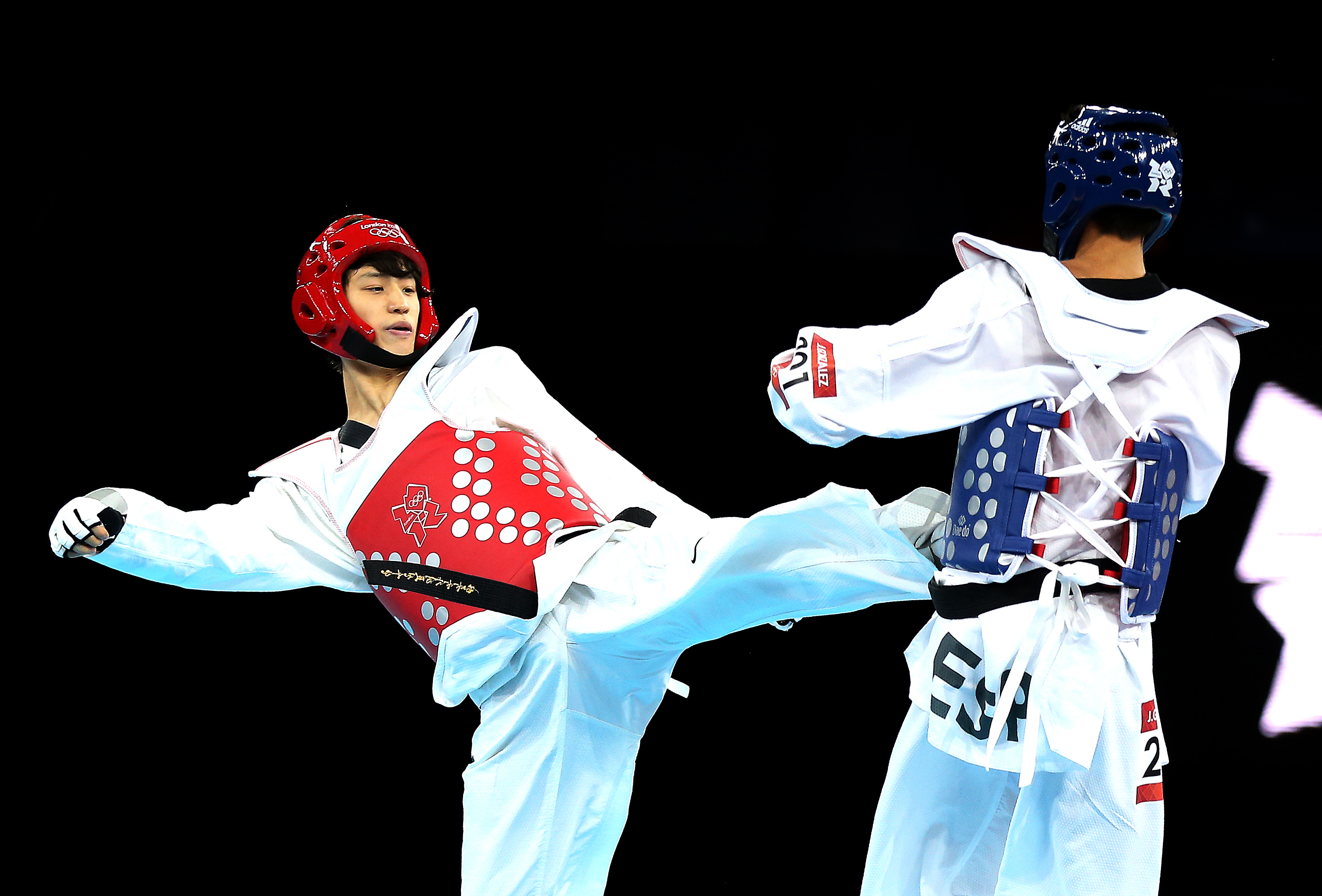 2012 London Olympic Games Korean Taekwondo Lee Dae-hoon won silver medal in men's -58kg at the ExCel Arena. 2012.08.09 Photo by Korean Olympic Committee Ministry of Culture, Sports and Tourism Korean Culture and Information Service 2012 런던 올림픽 남자 태권도 -58kg 이대훈 은메달 획득 사진제공 - 대한체육회 문화체육관광부 해외문화홍보원